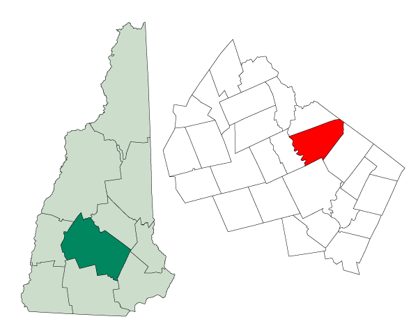 Map of a municipality in Merrimack County, New Hampshire